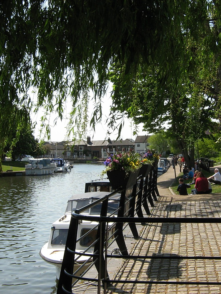 River Great Ouse quayside. Taken by gwendraith 28th April 2007